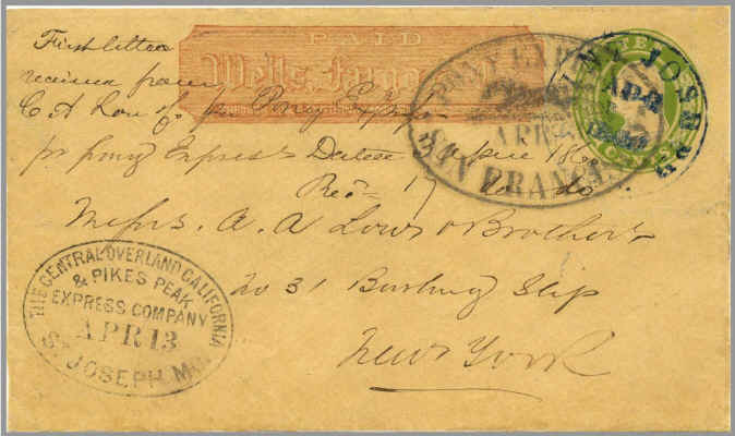 US Pony Express mailing